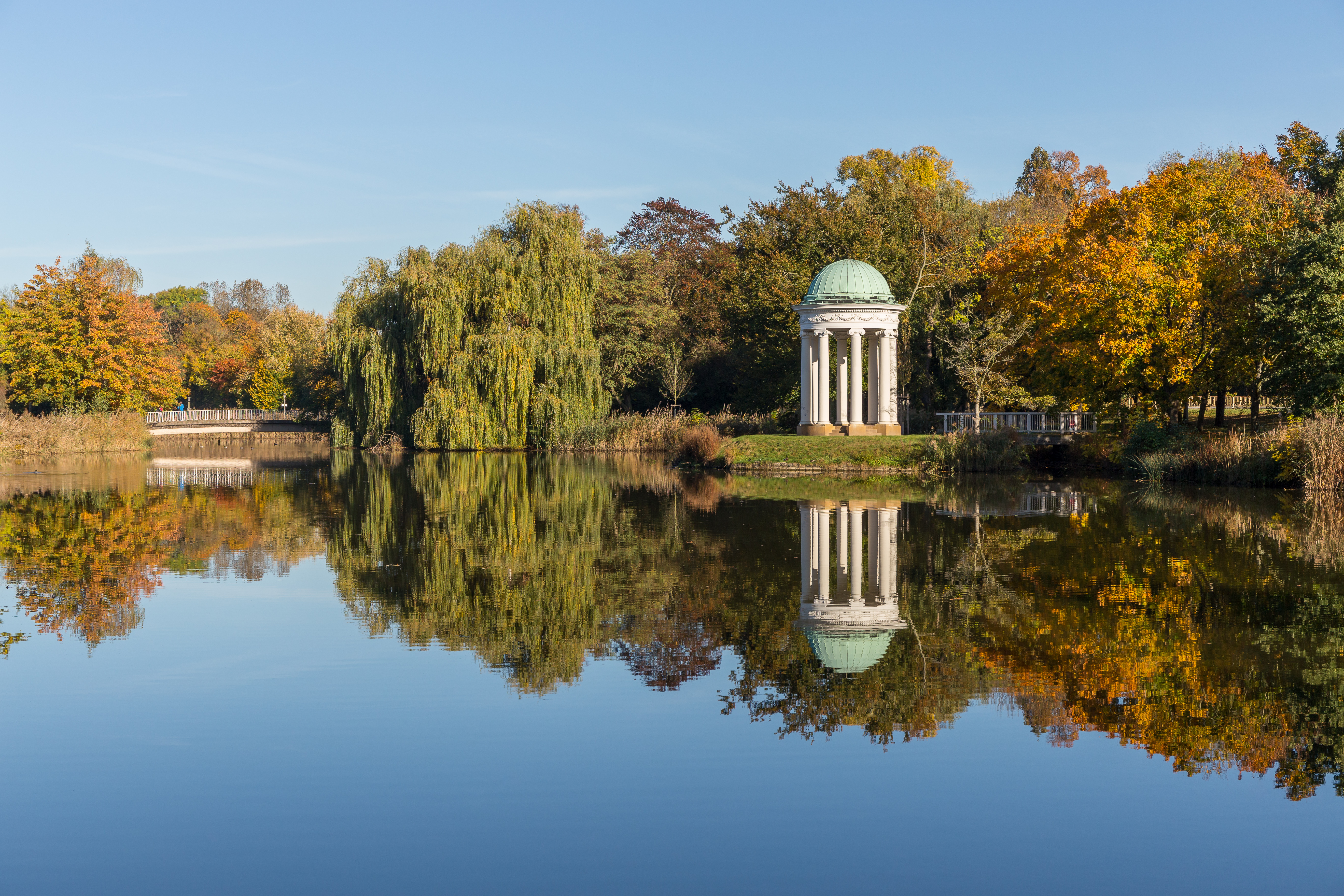 The so called "Musentempel" in the agra park in Markkleeberg (Saxony) on a sunny autumn day.